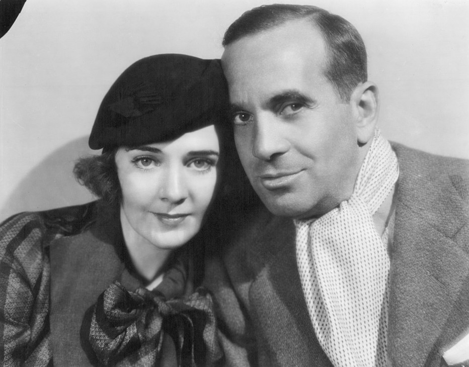 Photo of Ruby Keeler and Al Jolson on the set of Wonder Bar. The photo was taken when Keeler visited the set.